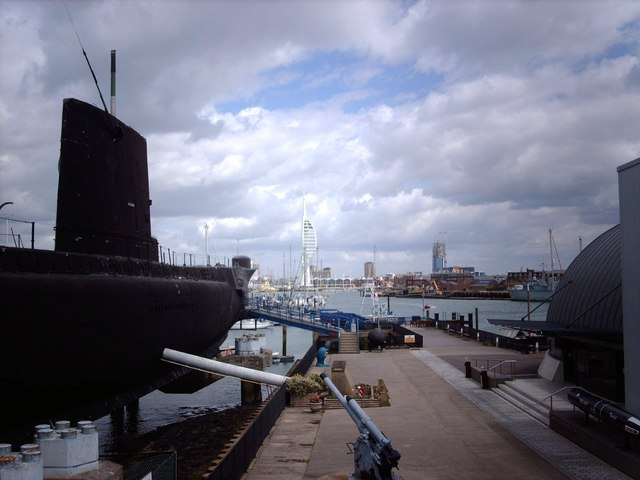 HMS Alliance HMS Alliance at the Submarine Museum with the Spinnaker Tower in the background